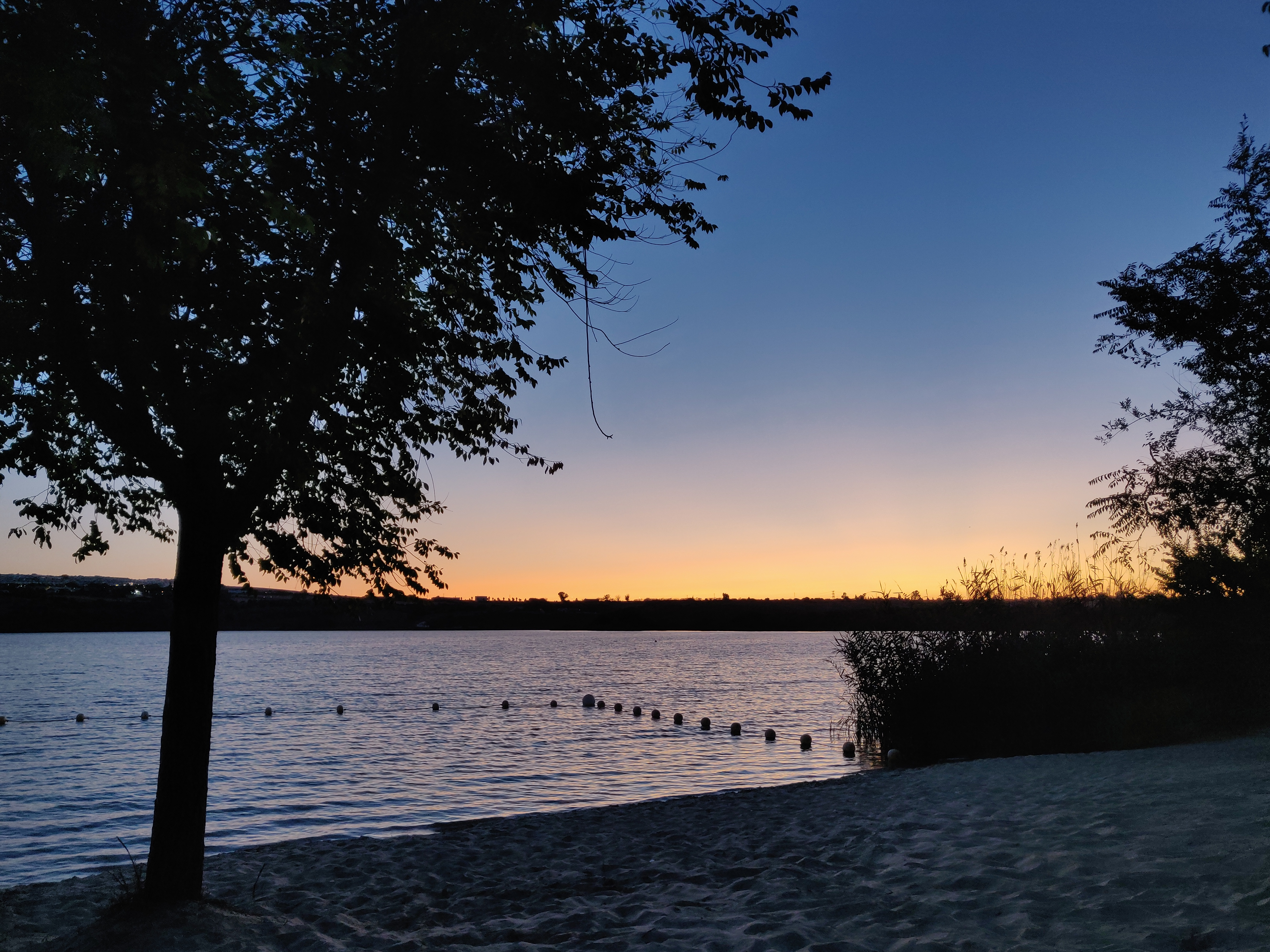 Sunset in the lake of Arcos de la Frontera